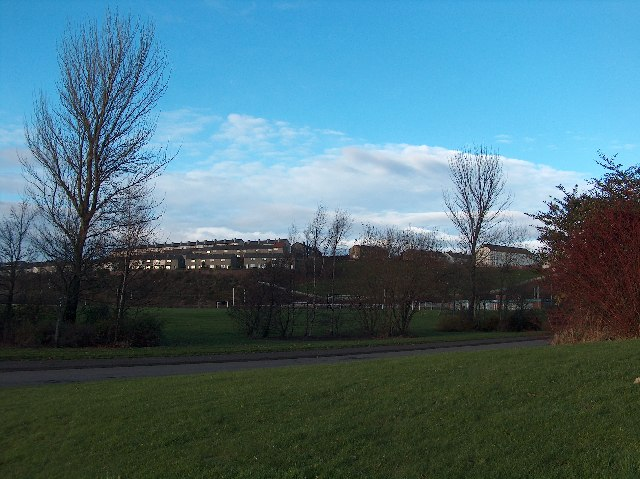 Westcliff, Dumbarton. Westcliff Housing Estate from Havock, River Clyde Foreshore, Dumbarton.